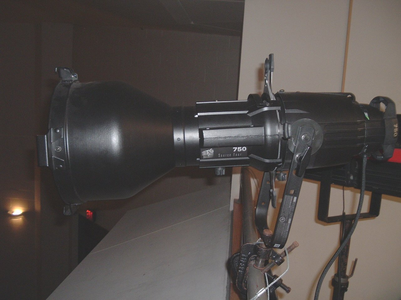 Photo of a Source four by User:KeepOnTruckin